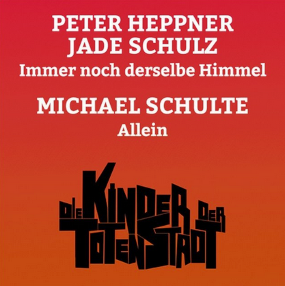 „Immer noch derselbe Himmel / Allein“ Single-Cover by Peter Heppner and Jade Schulz / Michael Schulte.